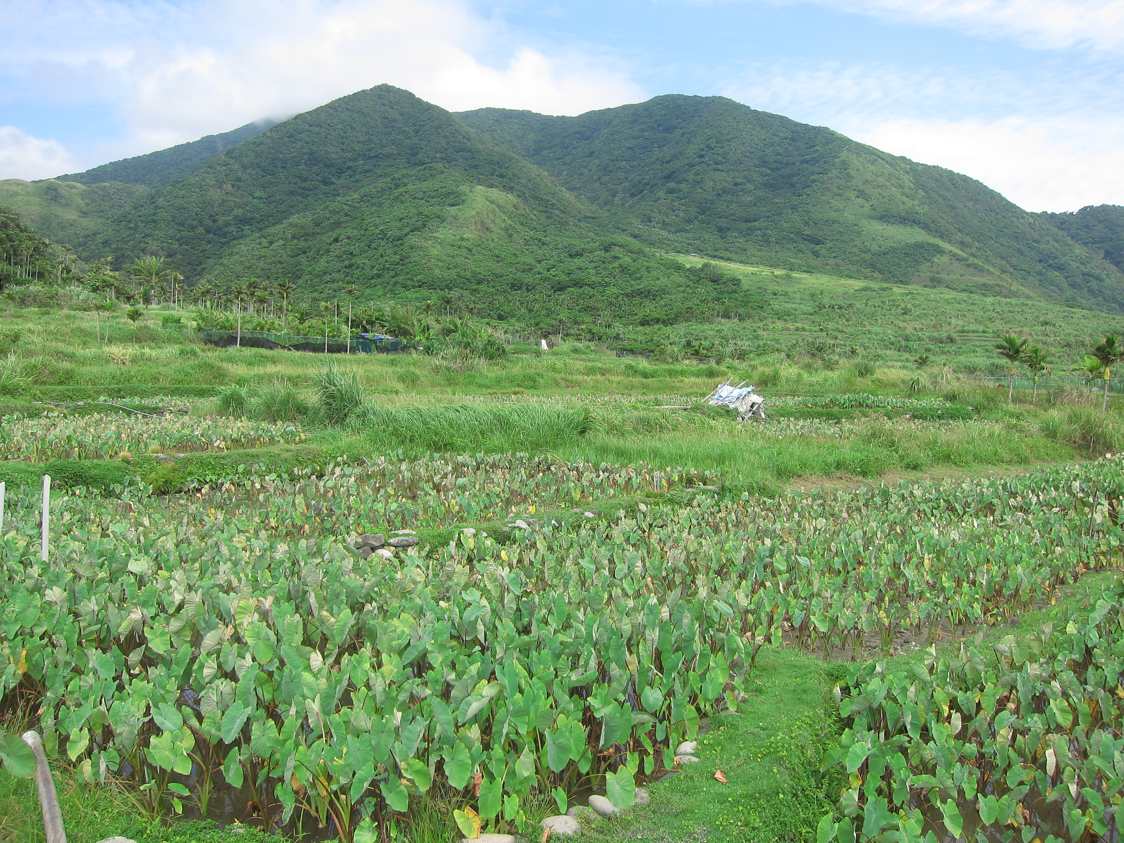 Impression from Orchid Island (Lan Yu), Taiwan.